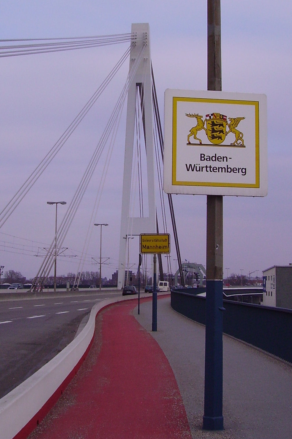 Mannheim, Germany